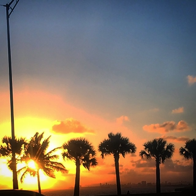 DR-3 Autopista Las Americas segment. Sunset with part of downtown in the background.